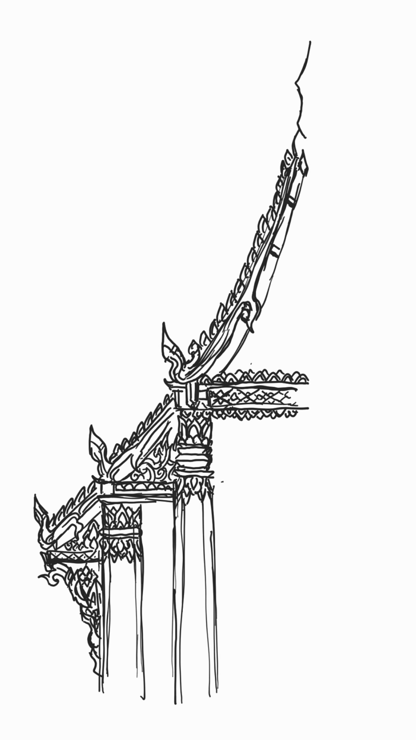 Thai Temple (Wat) Architecture sketch of the part call "Krueng Lamyong" (เครื่องลำยอง) Including: 1) Chofa (ช่อฟ้า) 2) Bai Rakha (ใบระกา) 3) Ruay Rakha (รวยระกา) 4) Nguang Aiyara (งวงไอยรา) 5) Nak Sadoung (นาคสะดุ้ง) 6) Hang Hong (หางหงส์) 7) Gra Jung Ruan (กระจังรวน) 8) Bua Jong Kol (บัวจงกล) 9) Jhua Bung Nok (จั่วบังนก) 10) Khan Thuay (คันทวย)